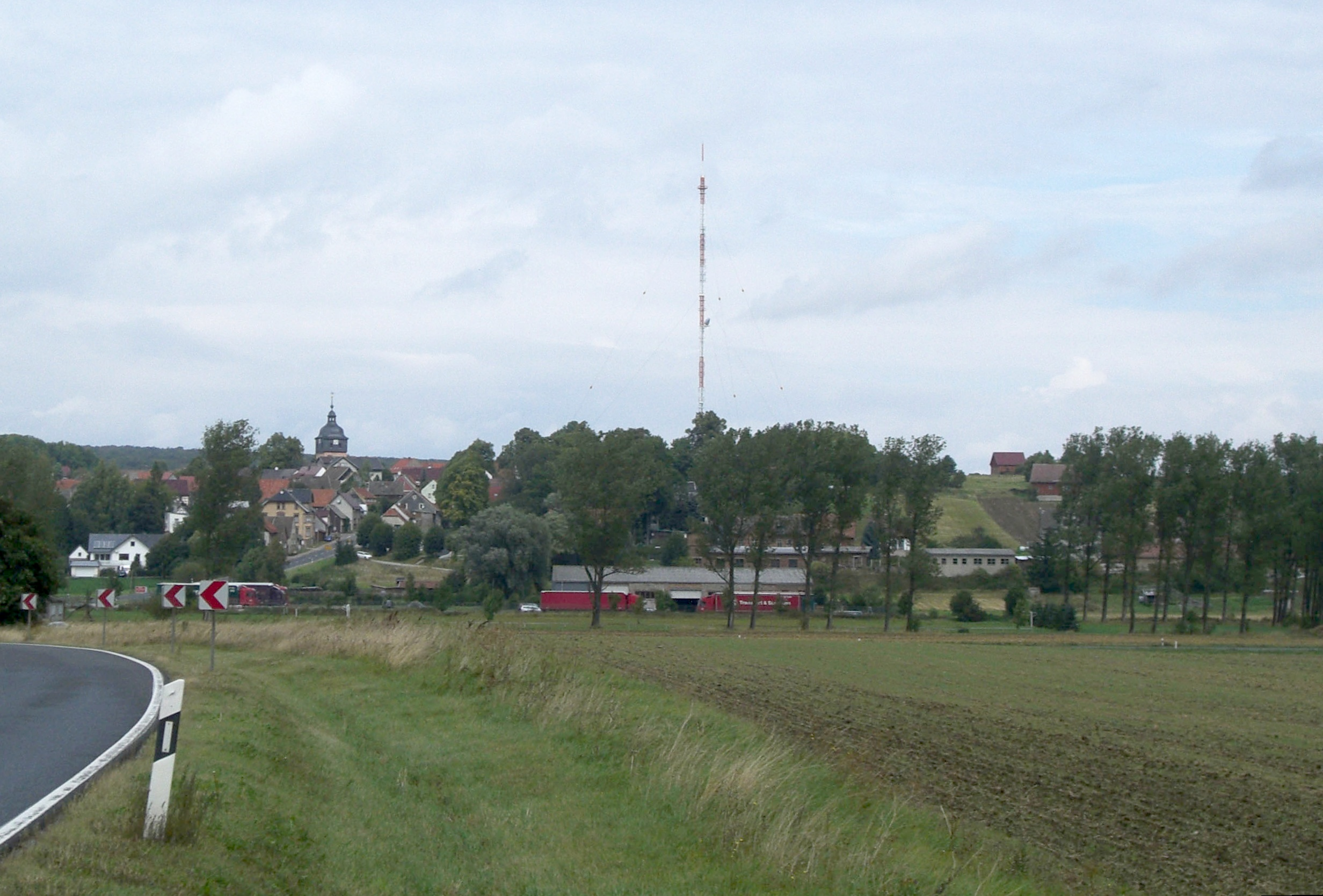 Village Keula with radiotransmitter Keula